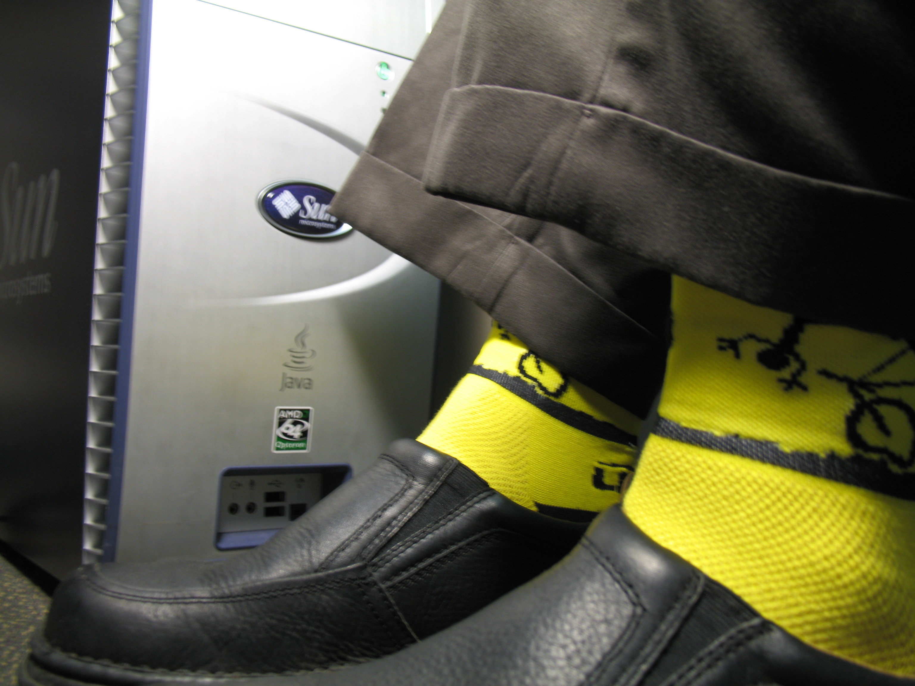 Yellow socks